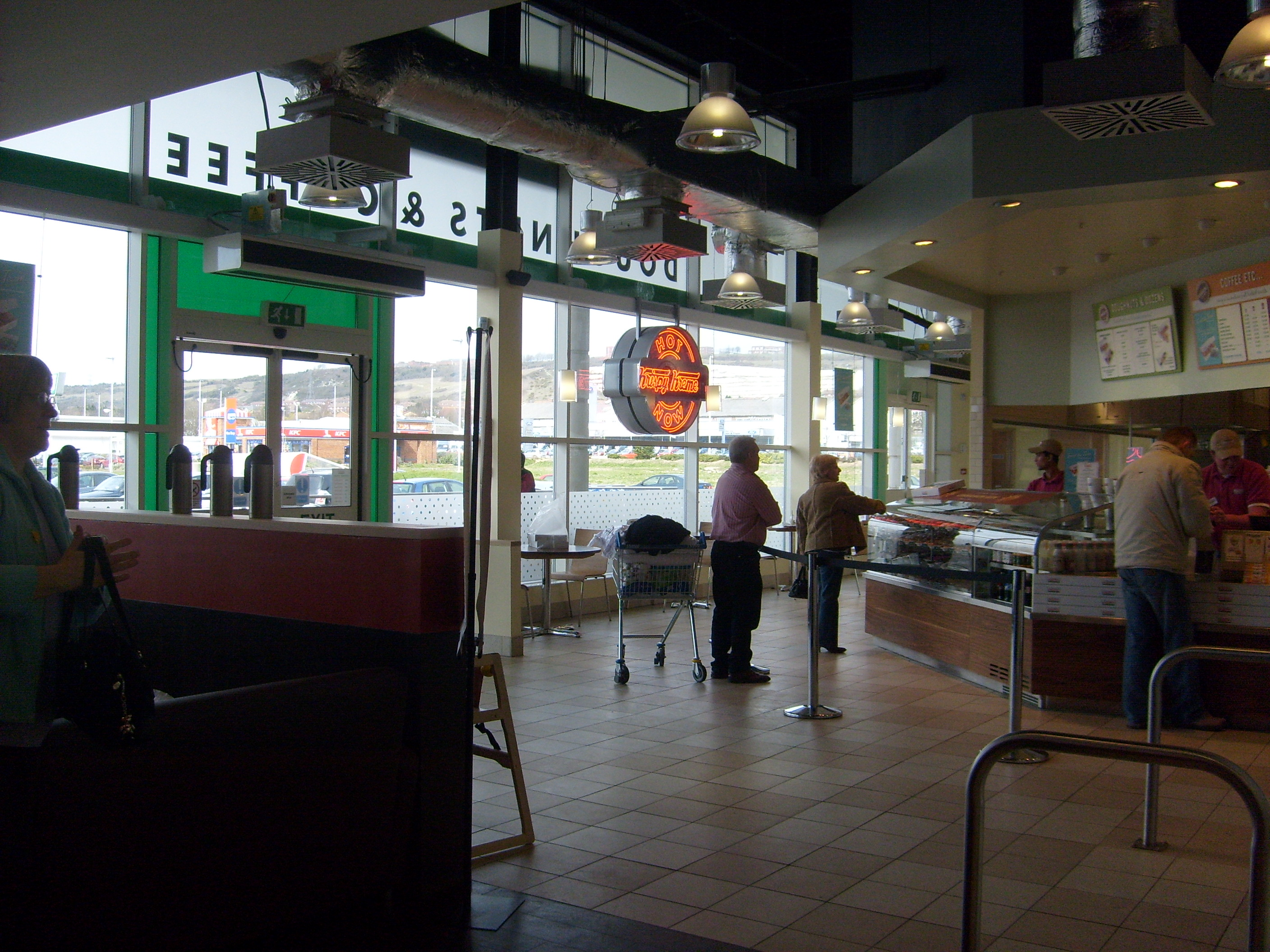 Inside a Krispy Kreme branch, Portmsouth.